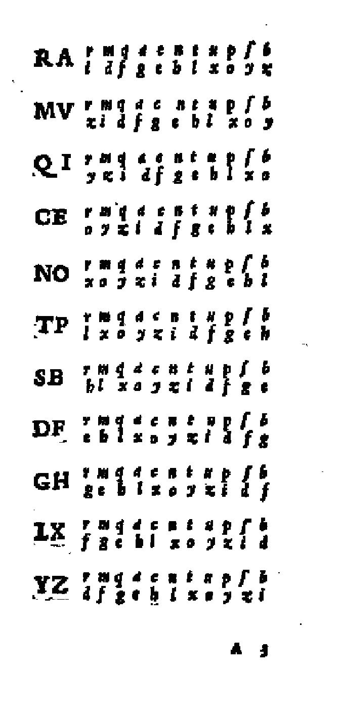 Giovan Battista Bellaso, Table of reciprocal alphabet from a 1555 book.